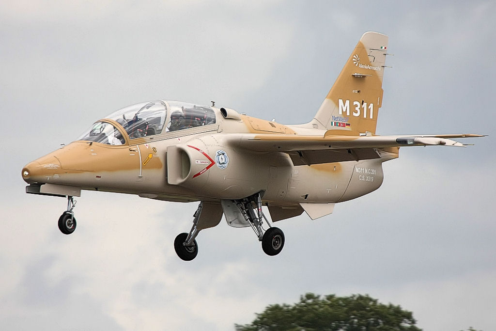 M311 - RIAT 2008